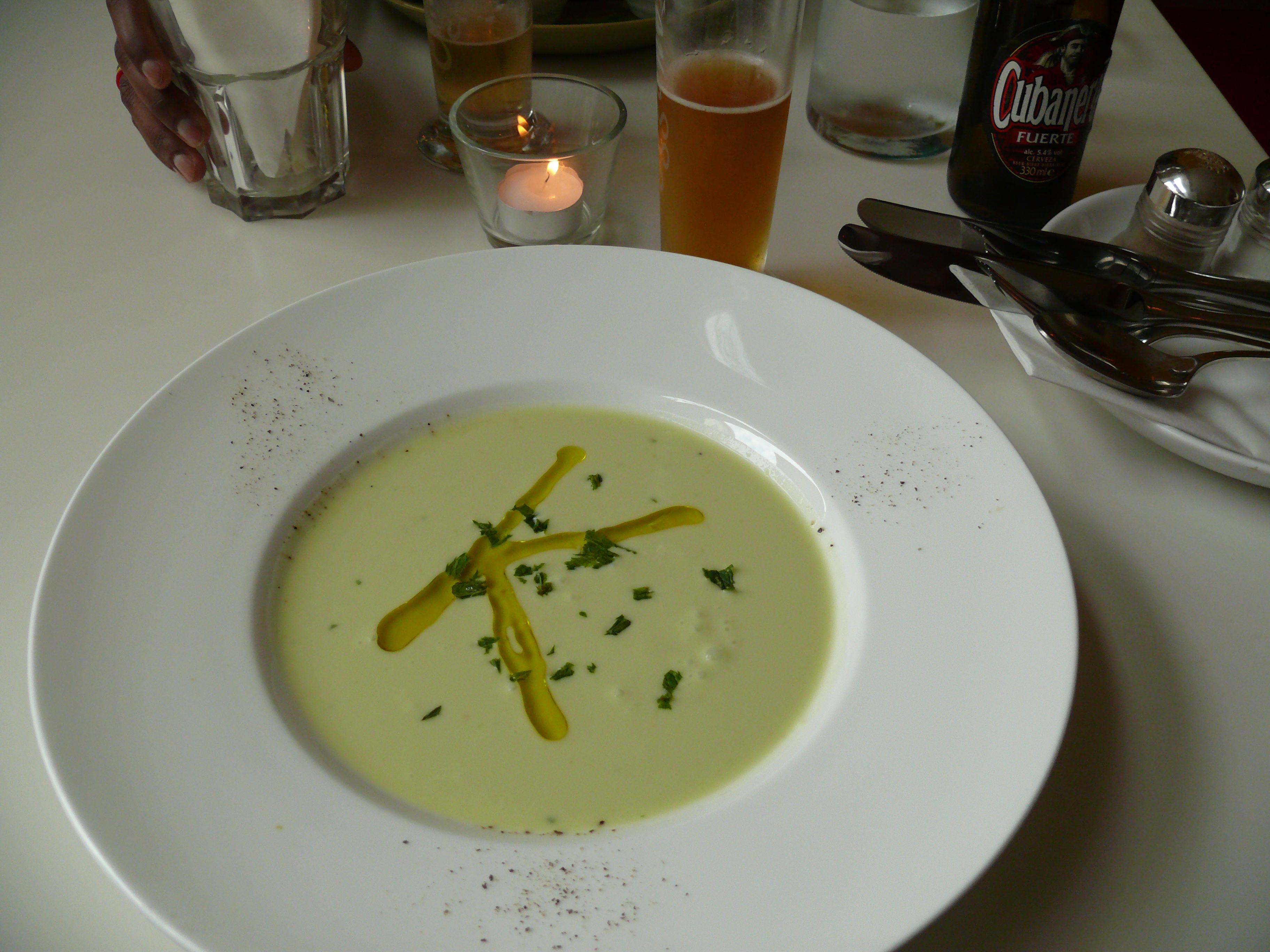 Cold avocado and coconut soup at keke's, hmm...delicious.